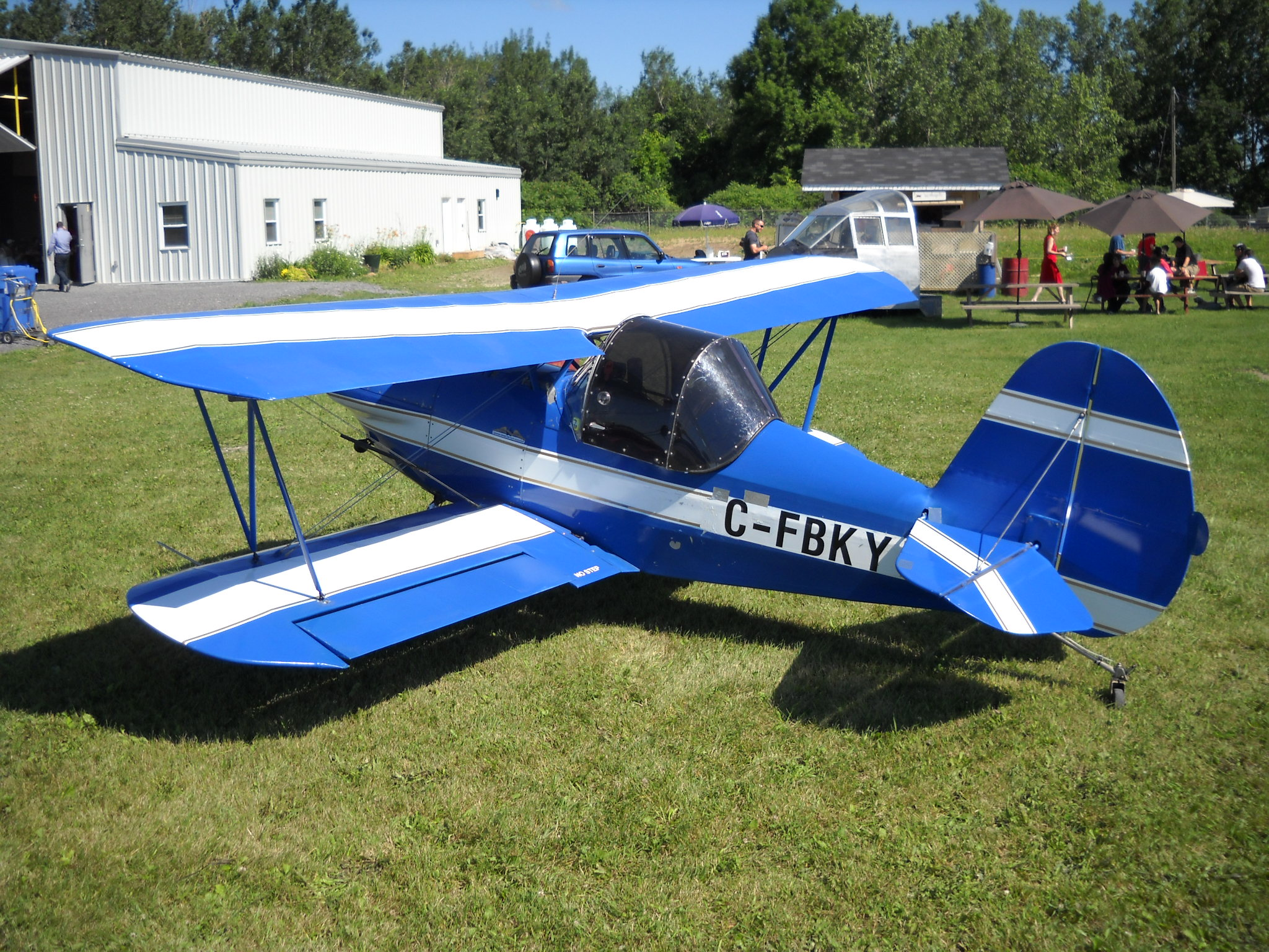 Baby Lakes at the Rockcliffe Airport, Ottawa, Ontario, Canada.